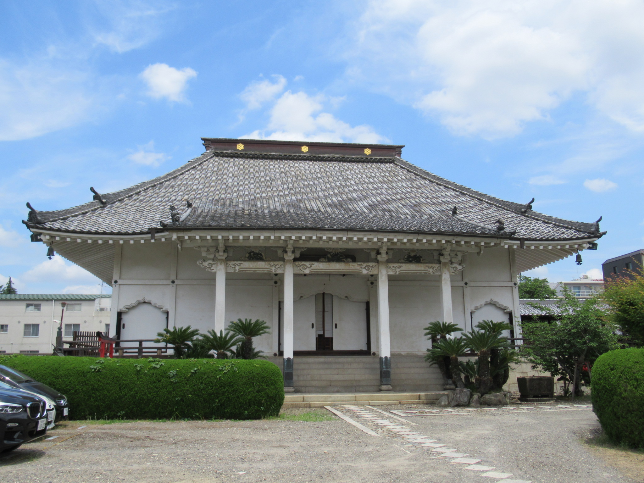 Honzenji, Kamigyo-ku, Kyoto.